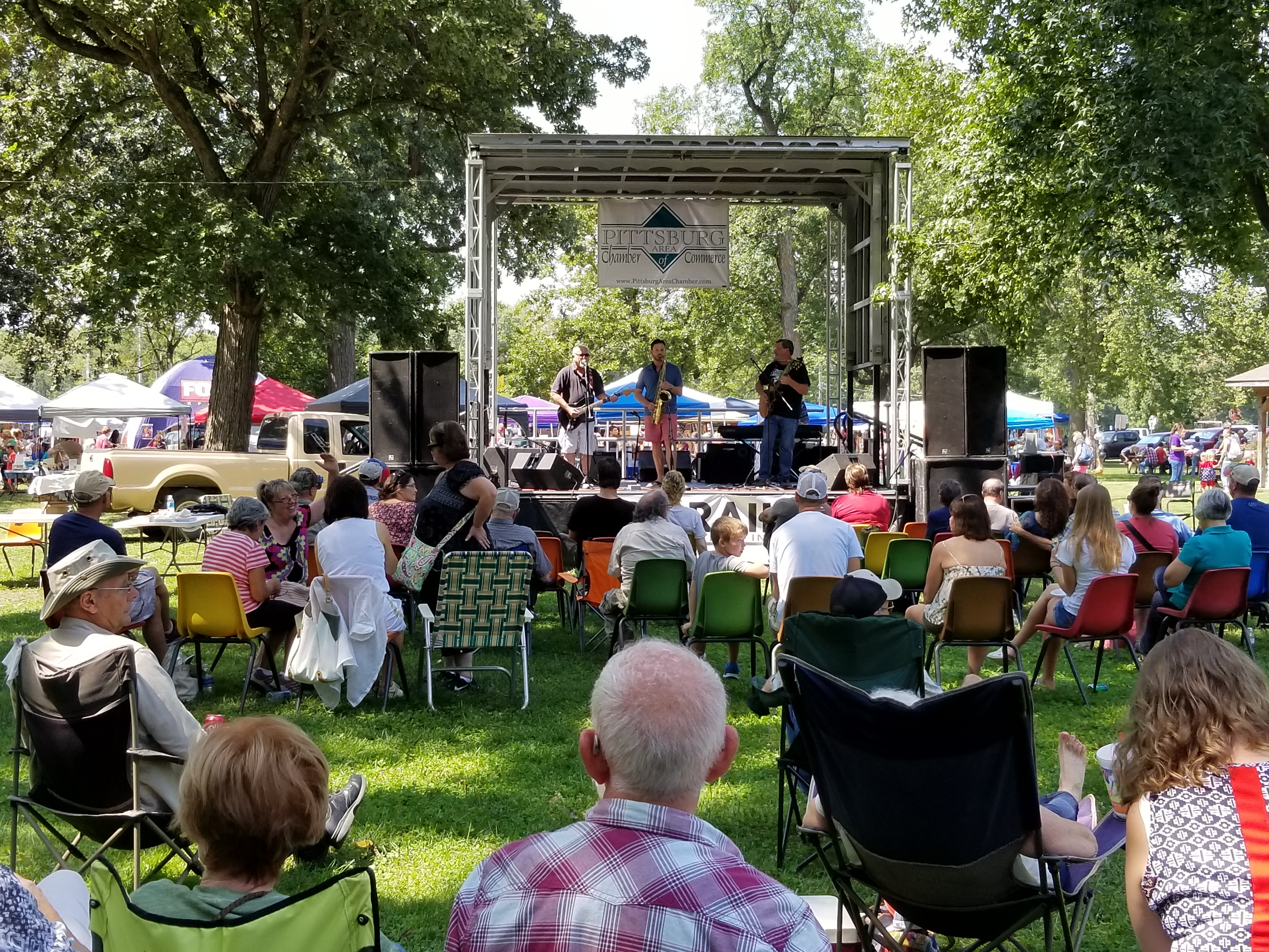 A crowd enjoys live music at the Little Balkans Days at Lincoln Park, Pittsburg.